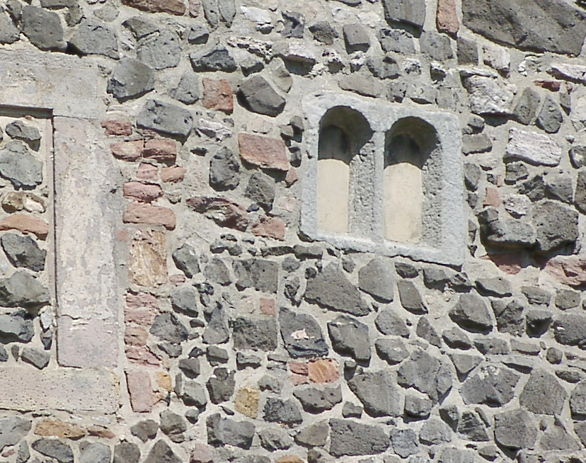 Monolithic twinned and arch-shaped windows, south front of Burg Fürsteneck, Eiterfeld, Hessen, Germany.